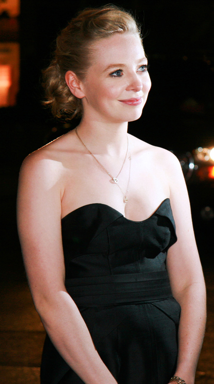 Portia Doubleday at the 2009 Toronto International Film Festival.